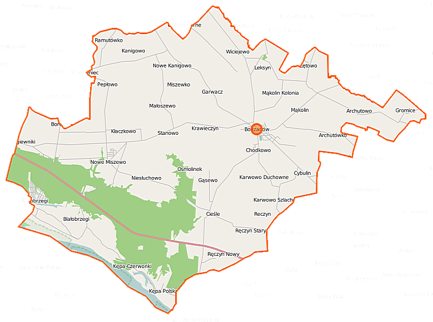 Map of Gmina Bodzanów, Poland This map of Bodzanów (gmina) was created from OpenStreetMap project data, collected by the community. This map may be incomplete, and may contain errors. Don't rely solely on it for navigation. Border coordinates52.554419.8564←↕→20.148252.4221